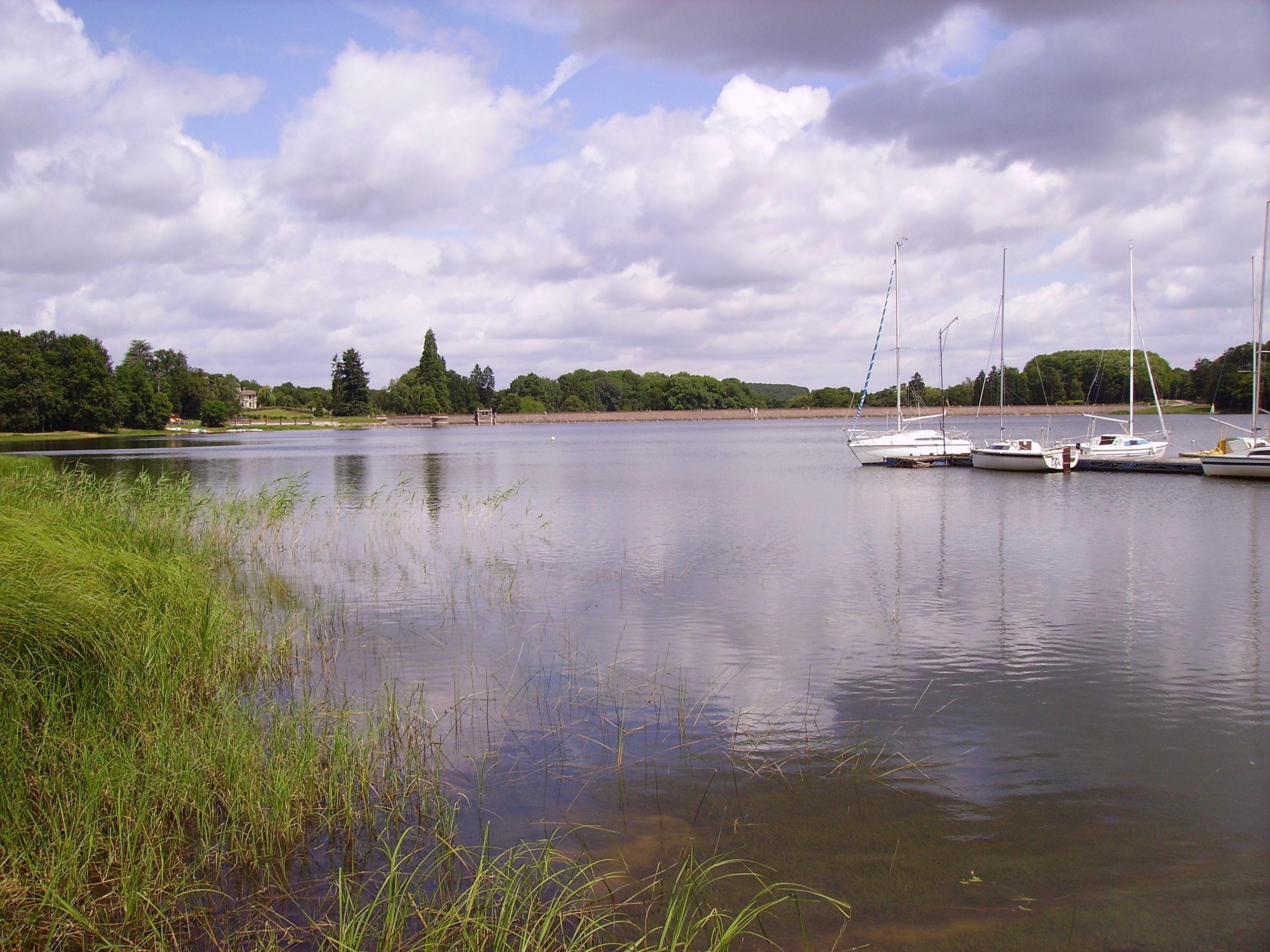 Lac du Bourdon (Bourgogne, France) of 220 ha. The dam is visible in the distance. View north from the parc de loisirs nearby the D185 road (north of Les Baillis).